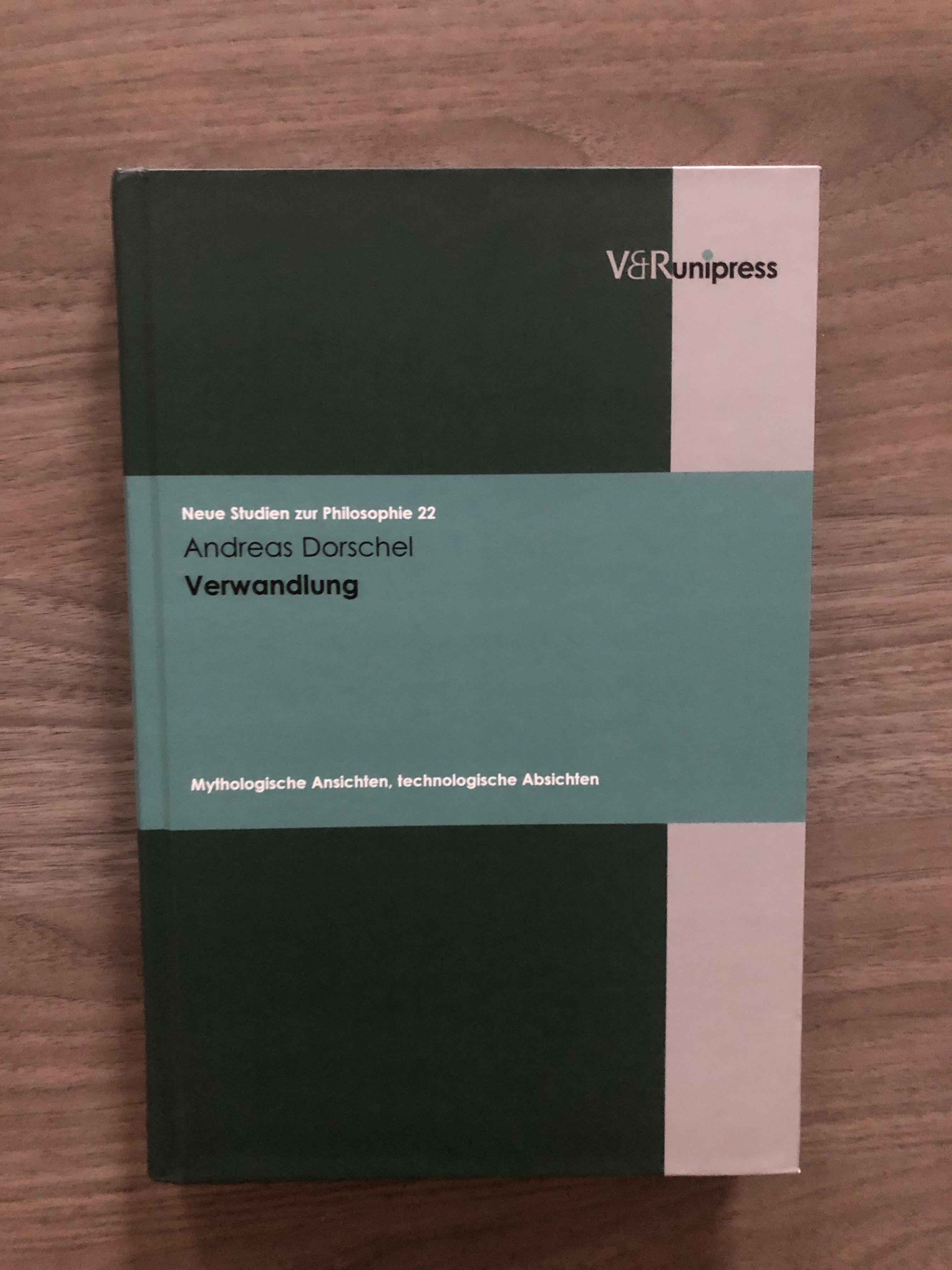 Andreas Dorschel, Verwandlung (2009)